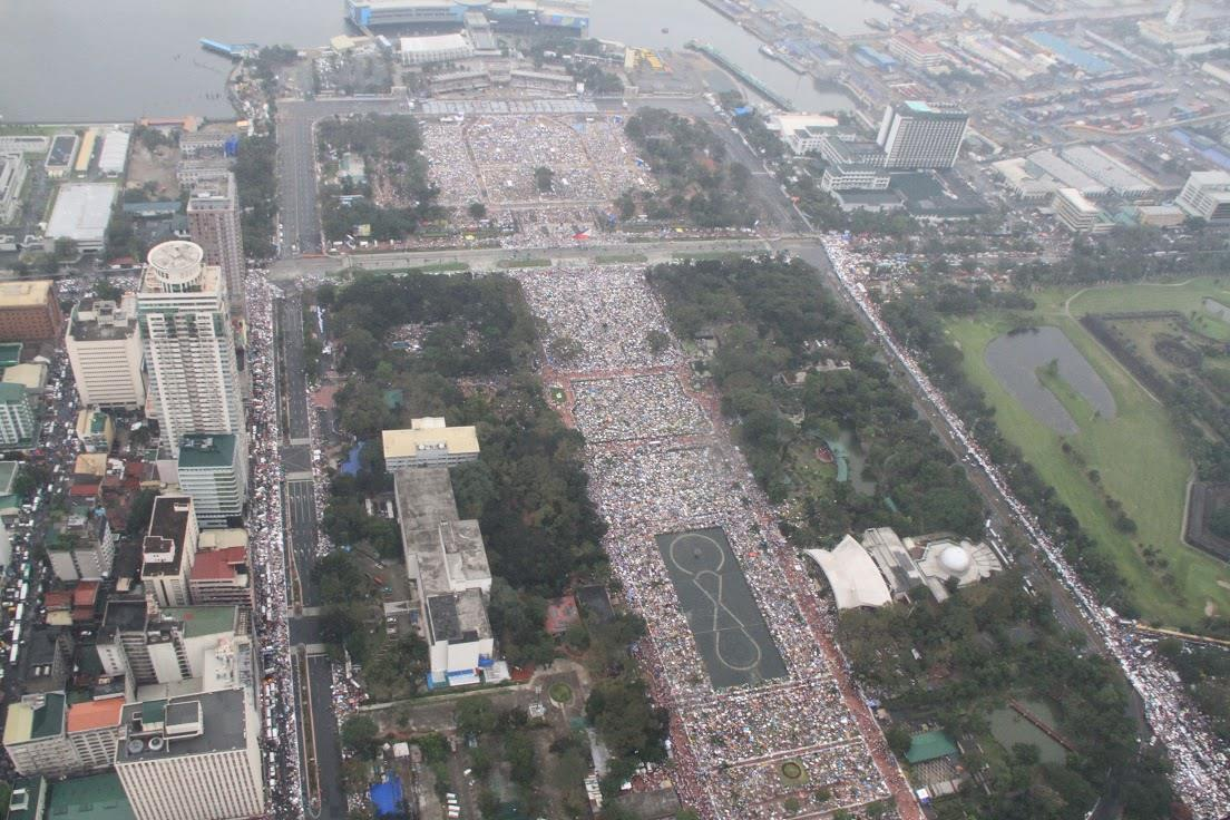 Aerial Shot of Rizal Park, Manila, Philippines during the Papal Visit, January 18, 2015.